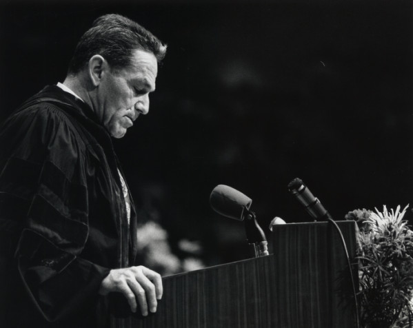 President, University of Texas at Austin; President, Rice University